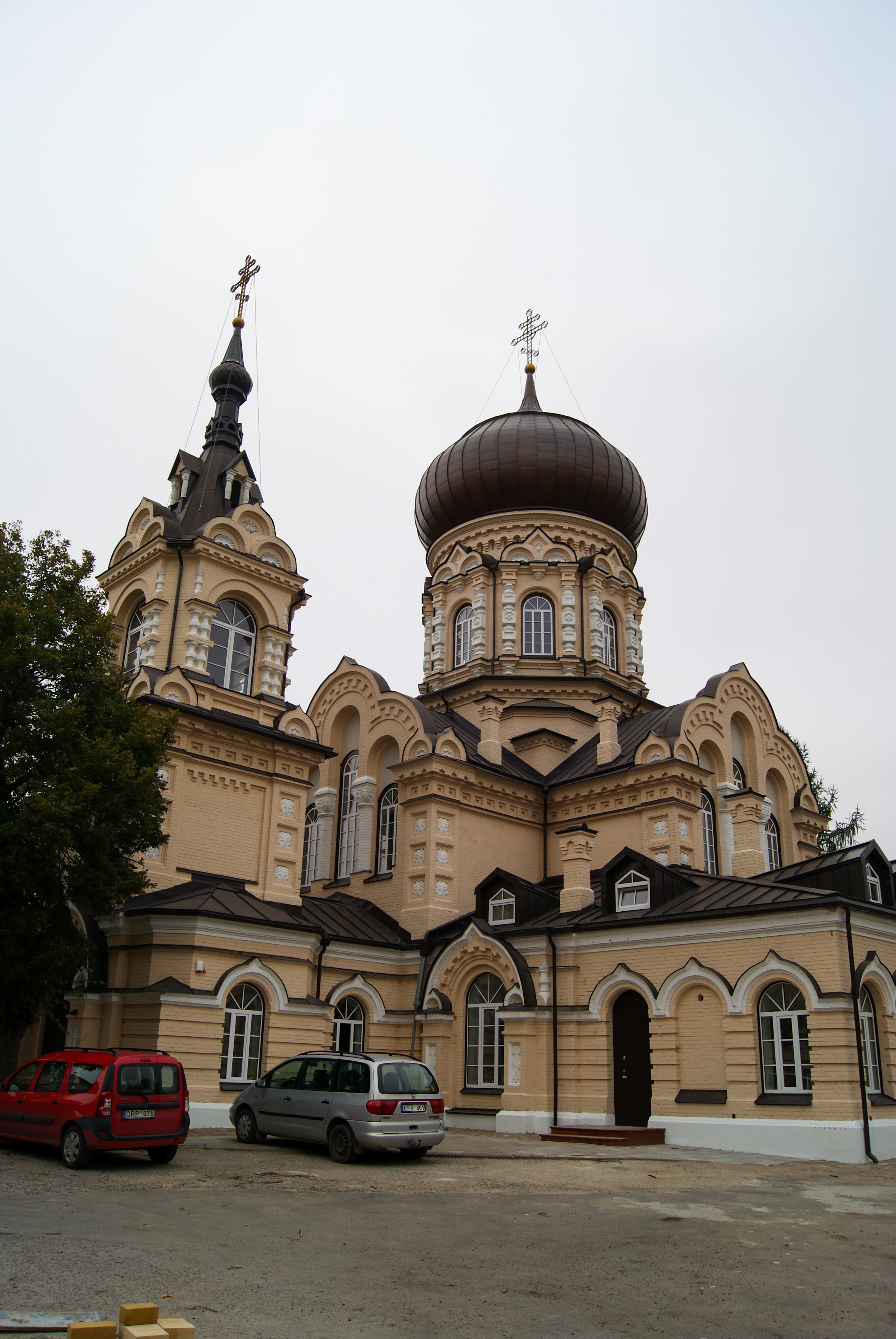 Orthodox church of St. Alexandre Nevsky in Vilnius